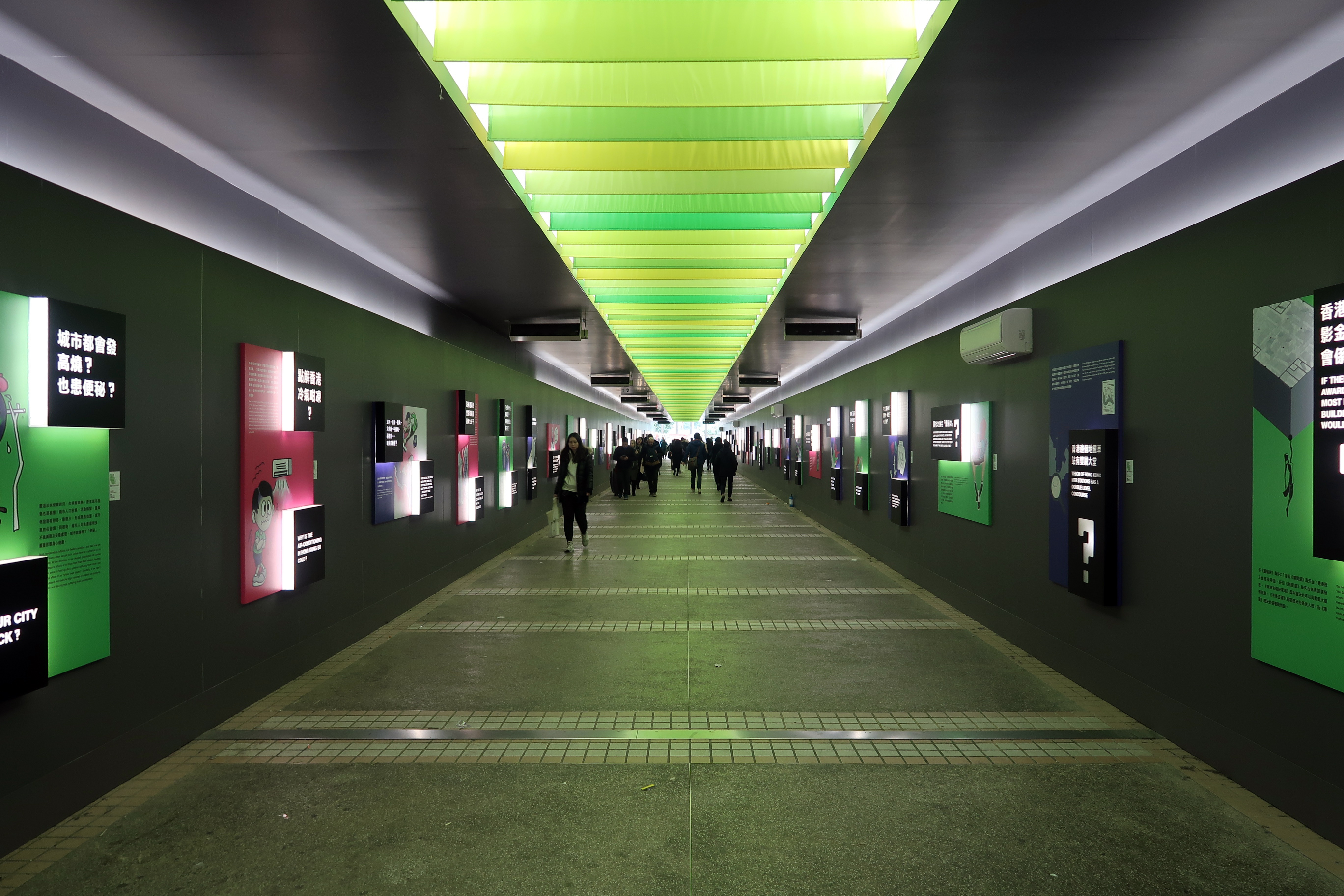 Central Market Public Passageway